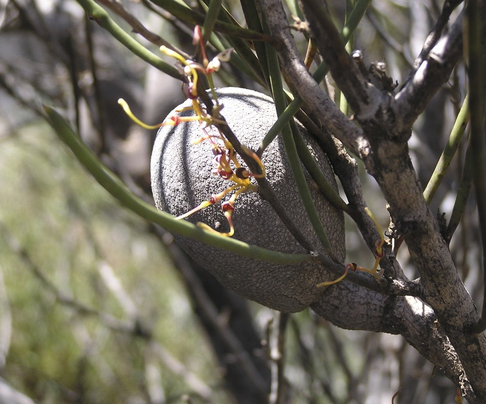 Fruit of Hakea platysperma on a plant in Wongan Hills